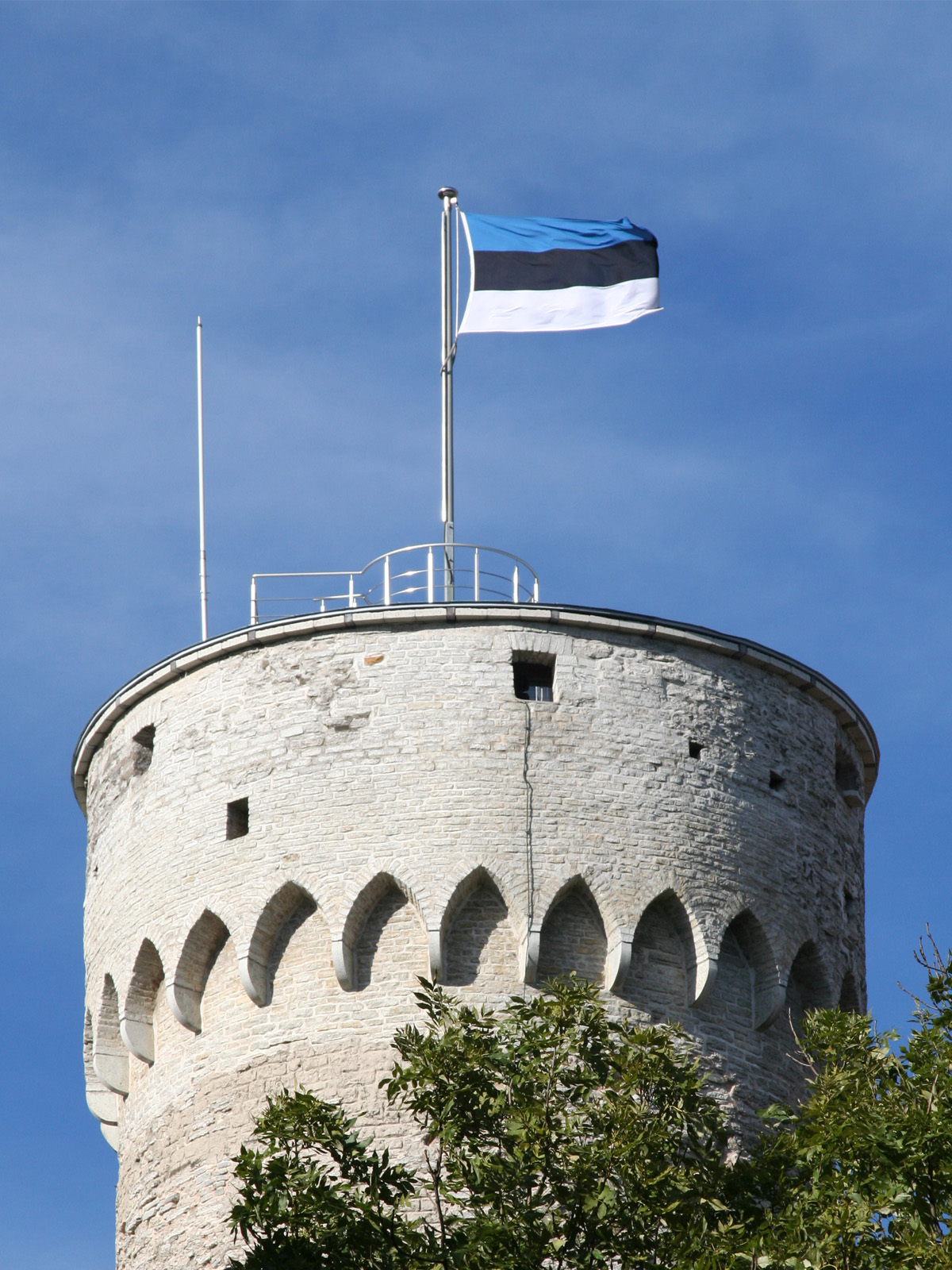 Flag of Estonia on top of Tall Hermann tower, Toompea castle, Tallinn Estonia